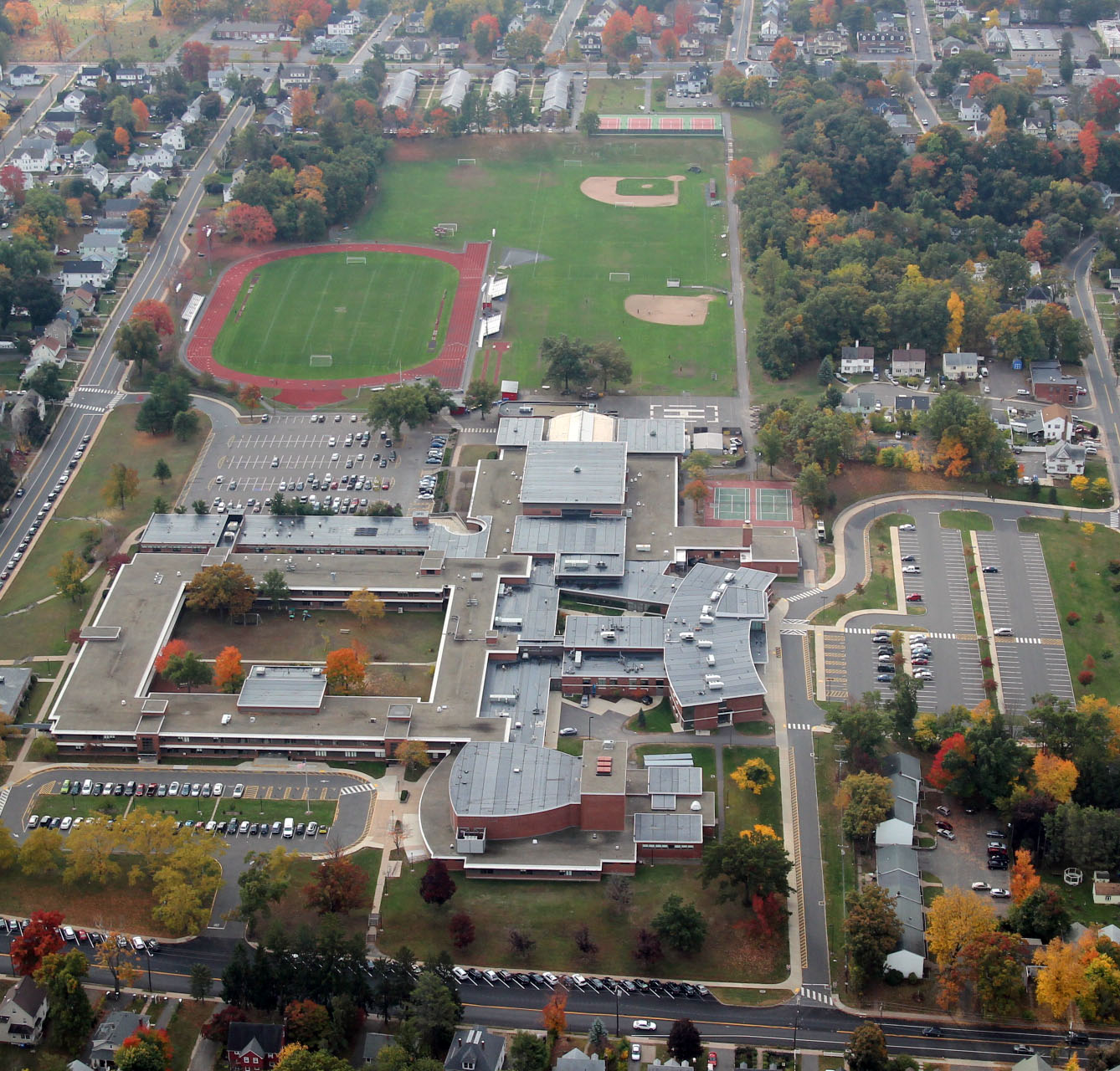 Manchester High School aerial 2014